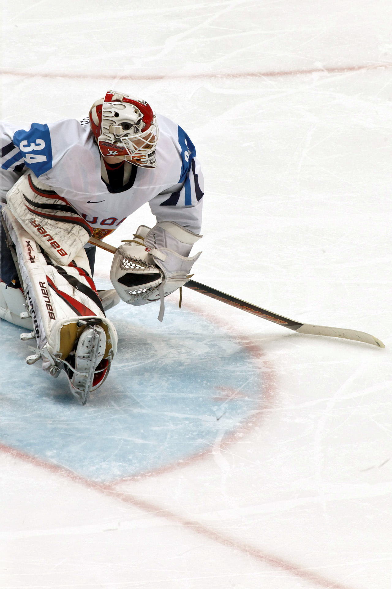 Finland goaltender Miikka Kiprusoff warms up before the bronze medal game against Slovakia at the 2010 Winter Olympics